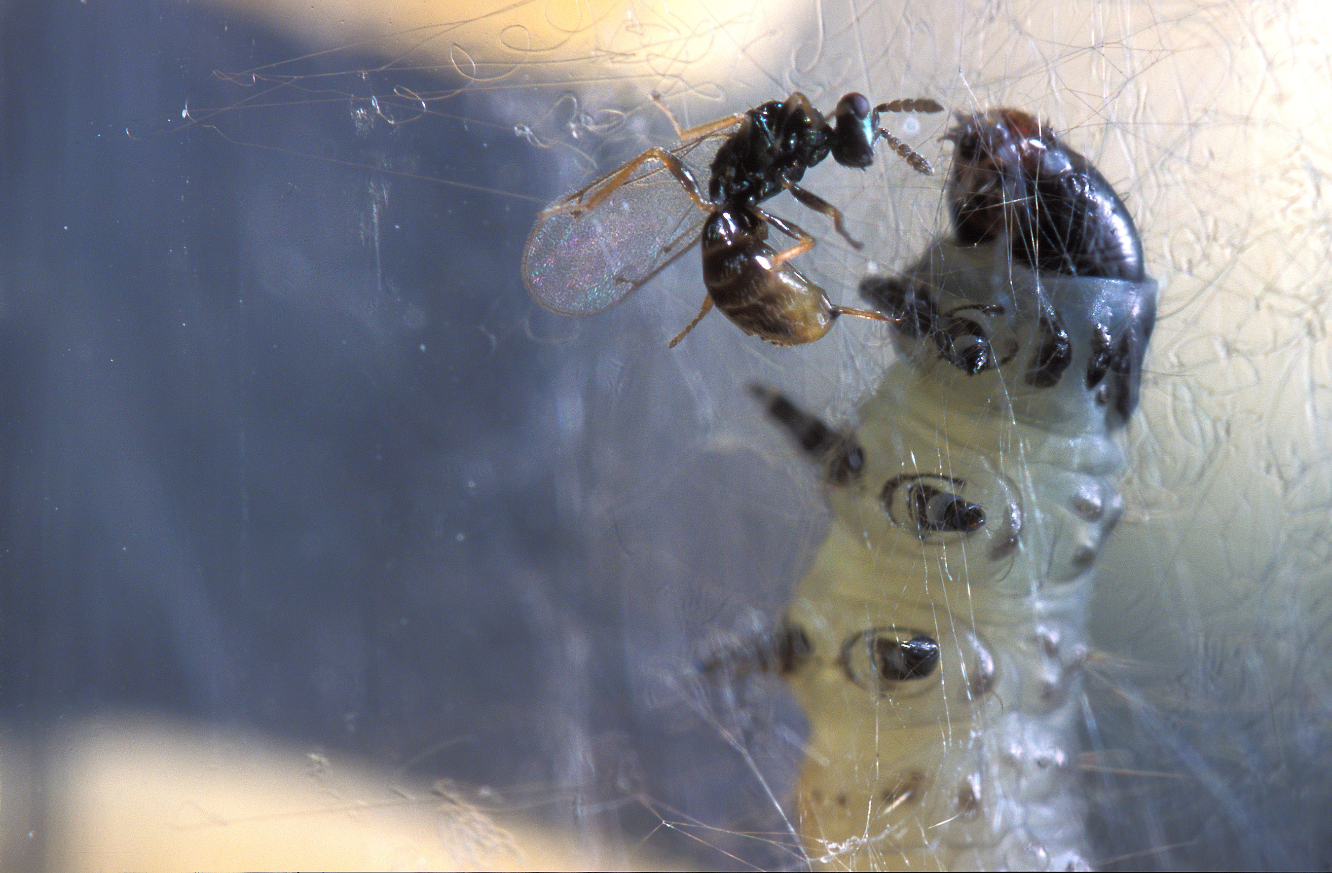 Female of Colpoclypeus florus WALKER (Hymenoptera Eulophidae, attempting to inject a toxin in a caterpillar of the oblique-banded leafroller (Choristoneura rosaceana). The stinger (protruding from its abdomen) injects a toxin that causes the leafroller to spin extra-thick webbing around itself. Ref.:United States Department of Agriculture : Agricultural Research Service: Image Number K10910-1.